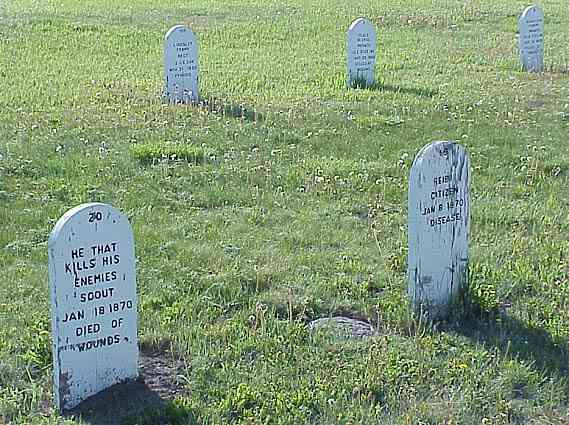 These are grave markers at the Fort Buford cemetery